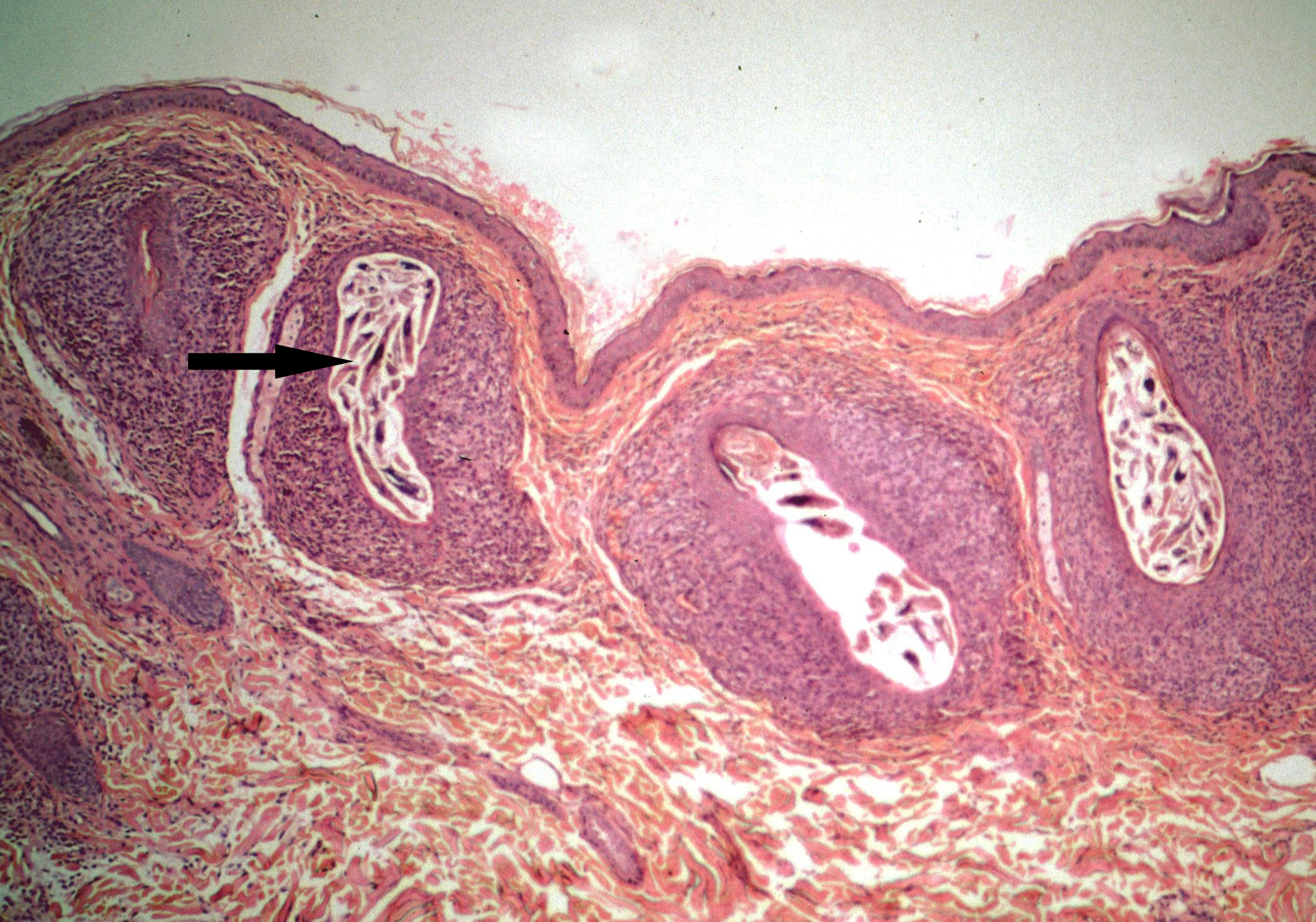 Section of skin of monkey infested with Demodex mites - they show as the elongate irregular brown bodies within the inflamed hair follicles